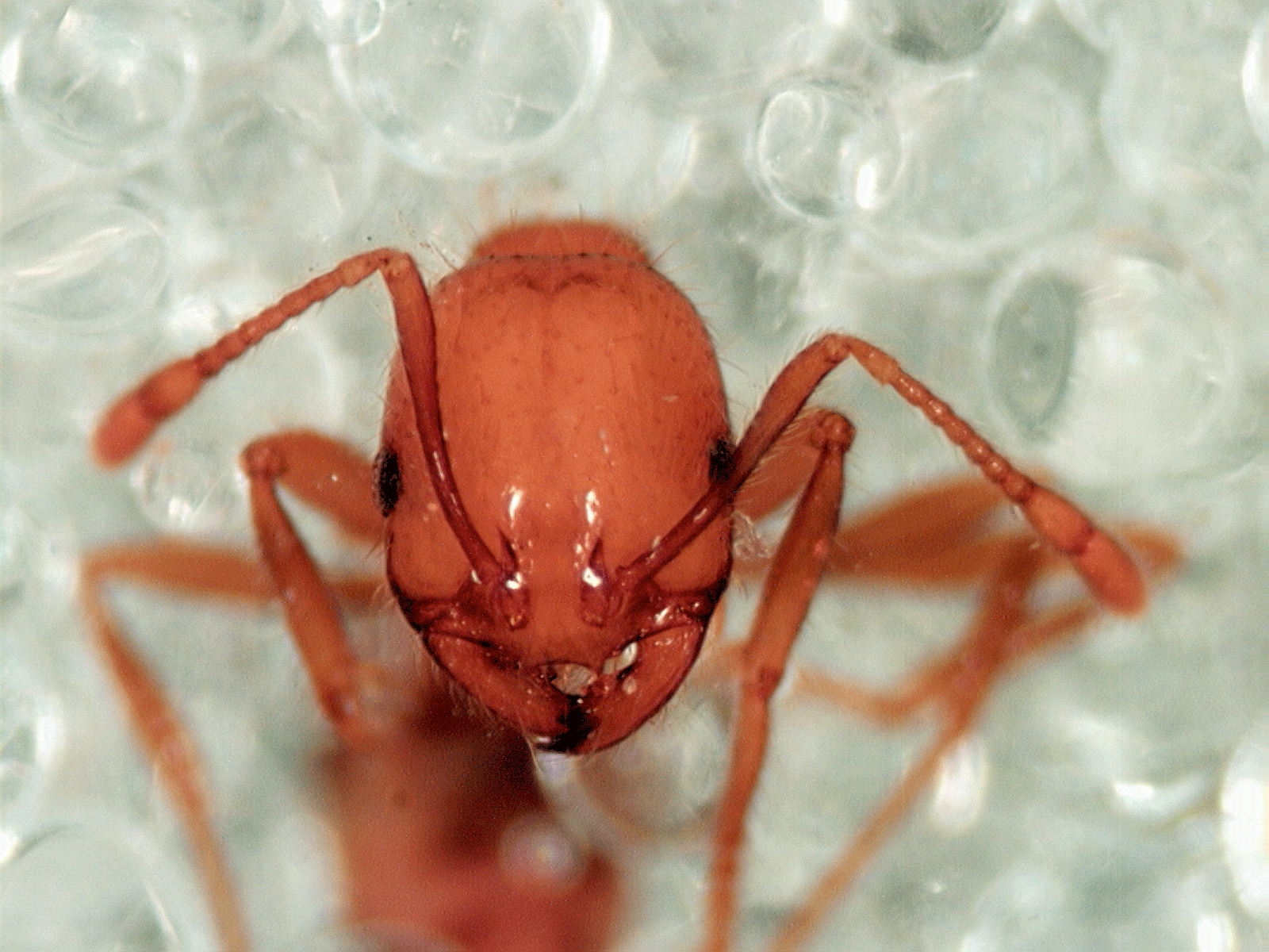 Tropical fire ants (Solenopsis geminata) get their name from their powerful sting. They are rapidly spreading across northern Australia. Tropical fire ants are one of the four most serious pest ant species in northern Australia, along with Yellow Crazy ants Anoplolepis gracilipes, African Big-headed ants Pheidole megacephala, and Singapore ants Monomorium destructor. CSIRO is currently working to eradicate tropical fire ants on the Tiwi Islands north of Darwin.